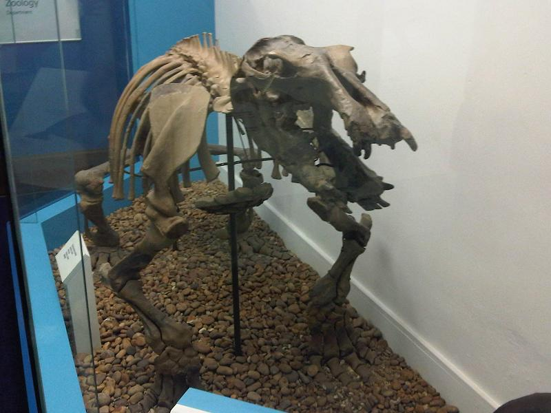 Paleoparadoxia tabatai skeleton at the Natural History Museum in London, England.